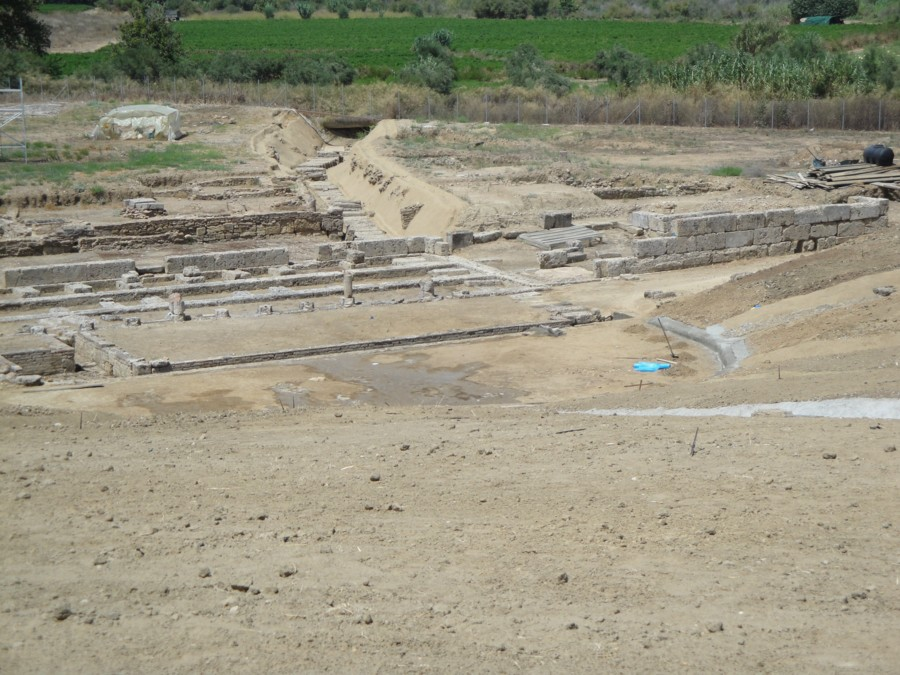 The theatre of Elis was built in the 4th century BC, is located at the northeast edge of the Agora, and had a capacity of 8000 persons.